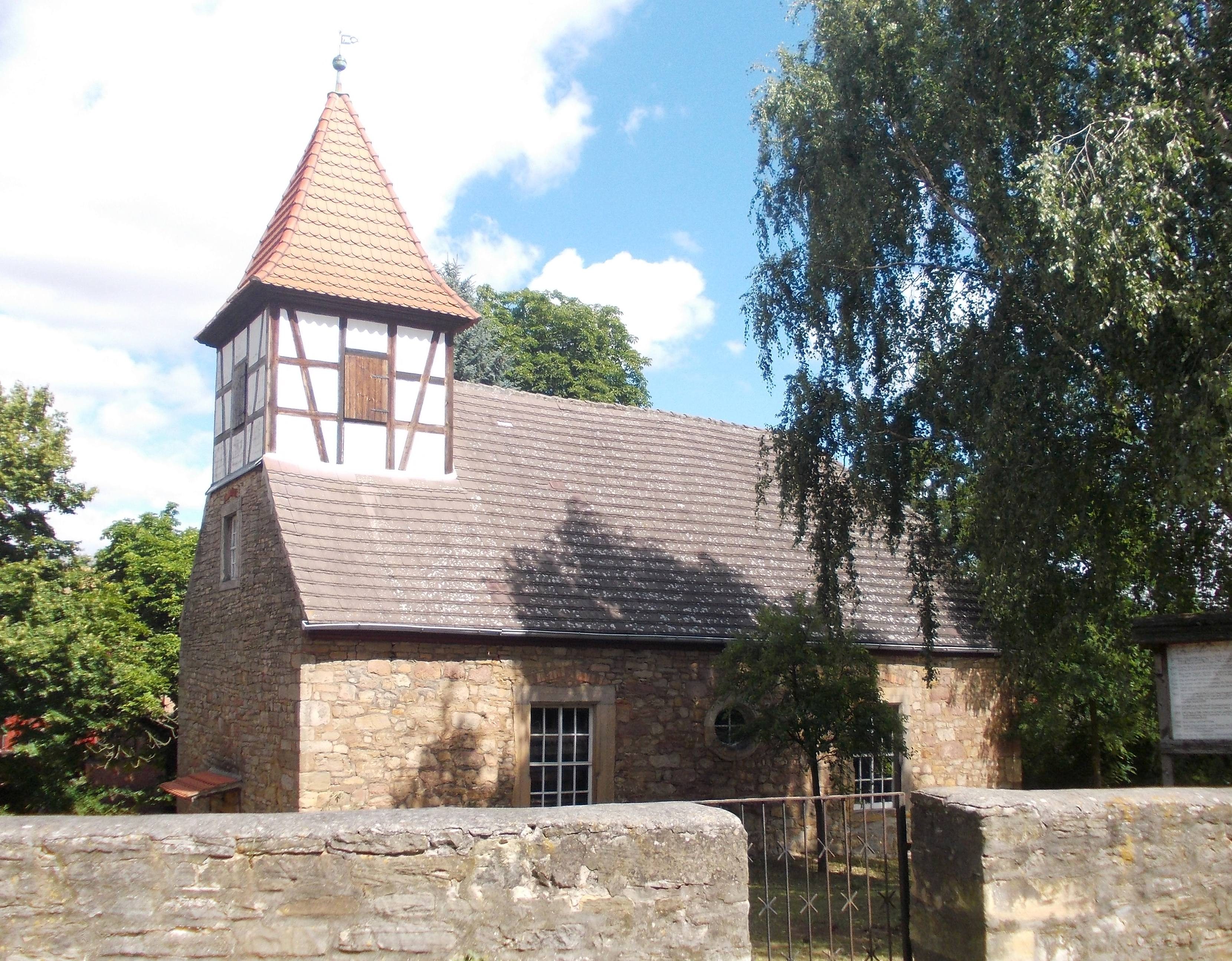 St. Nicholas' Church in Zeisdorf (Kaiserpfalz, district: Burgenlandkreis, Saxony-Anhalt)